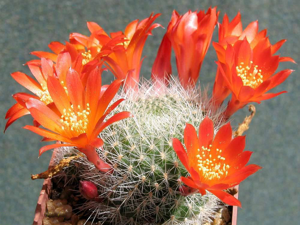 Rebutia senilis Backeb. var. senilis - cultivated plant from own collection.